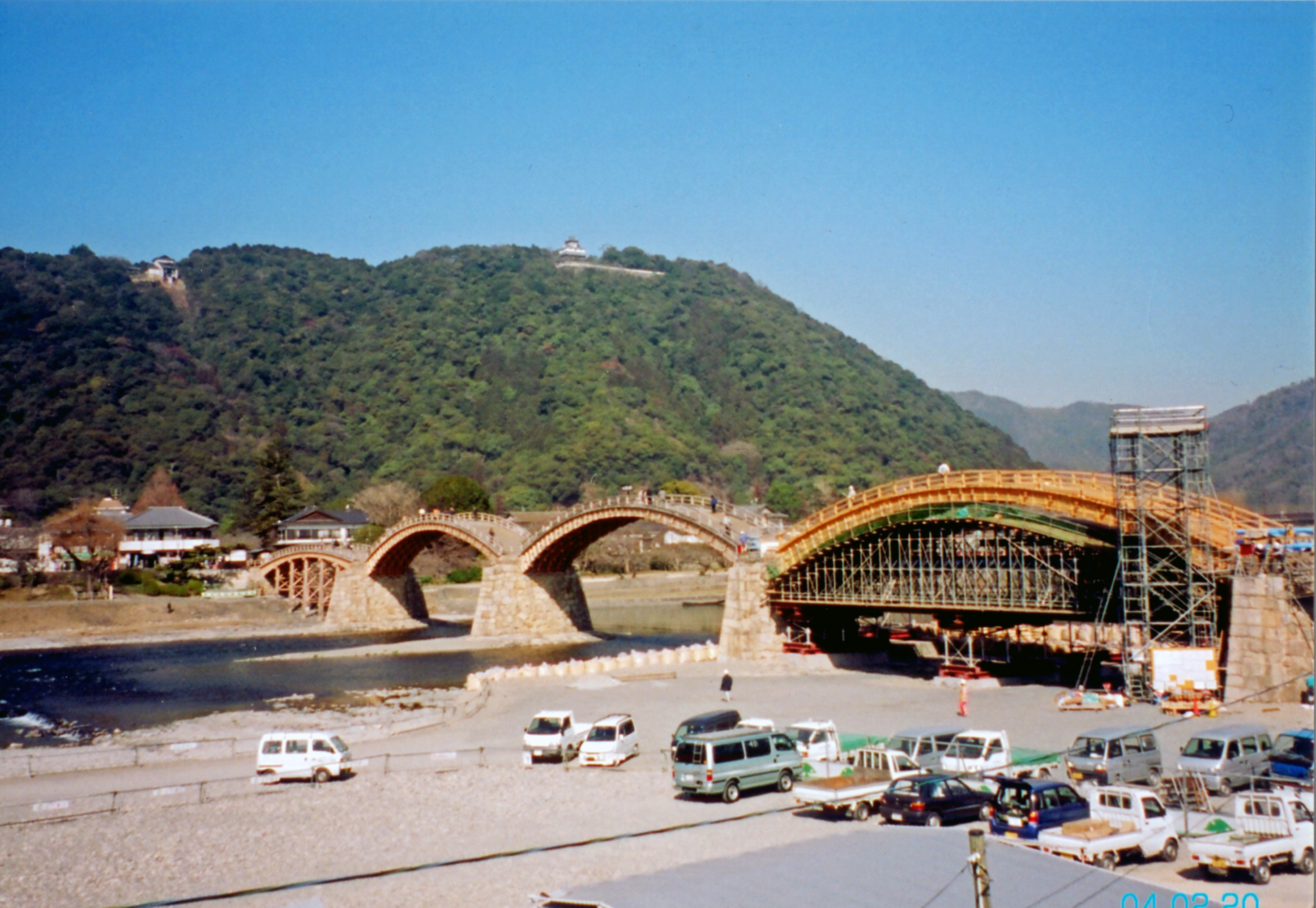 Kintai Bridge.In this bridge, repair construction is performed regularly every 50 years.